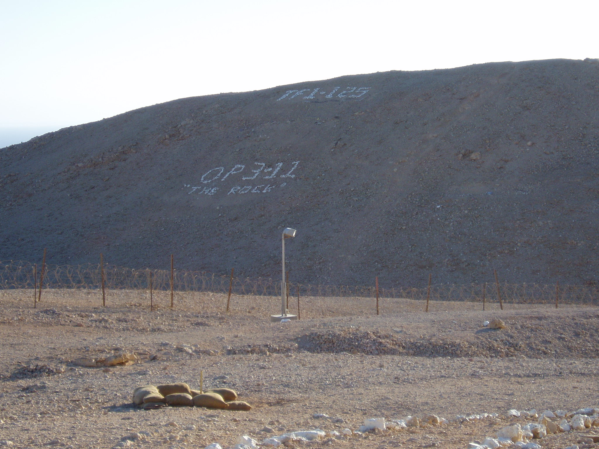 A hill outside the landing zone (OP 3-11) on Tiran island. Multinational Force and Observers (MFO) soldiers nicknamed OP (observation point) 3-11 "The Rock" after the US prison movie due to its supposedly similar qualities.